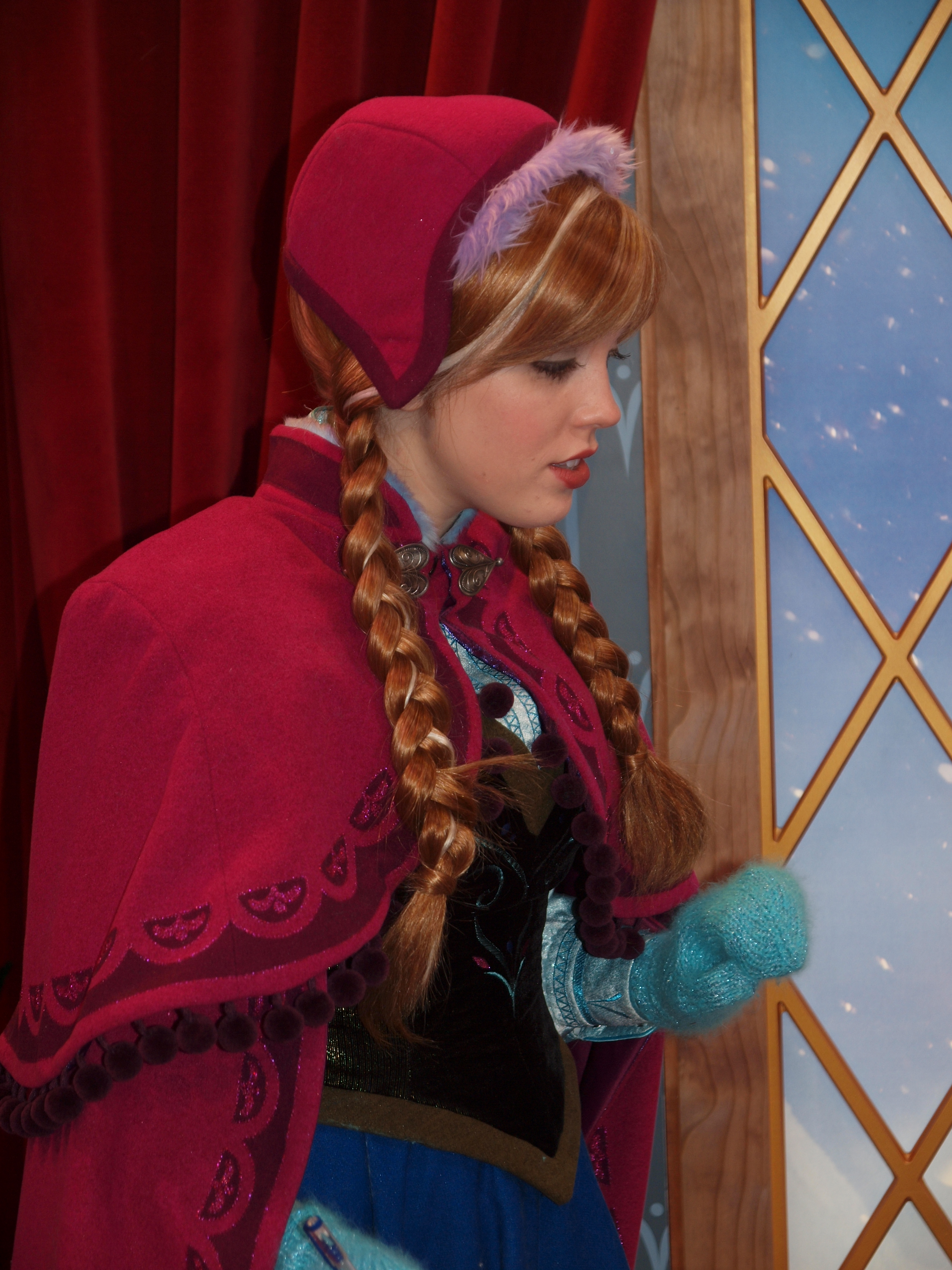 Anna at Disney Winter Vacation 2014